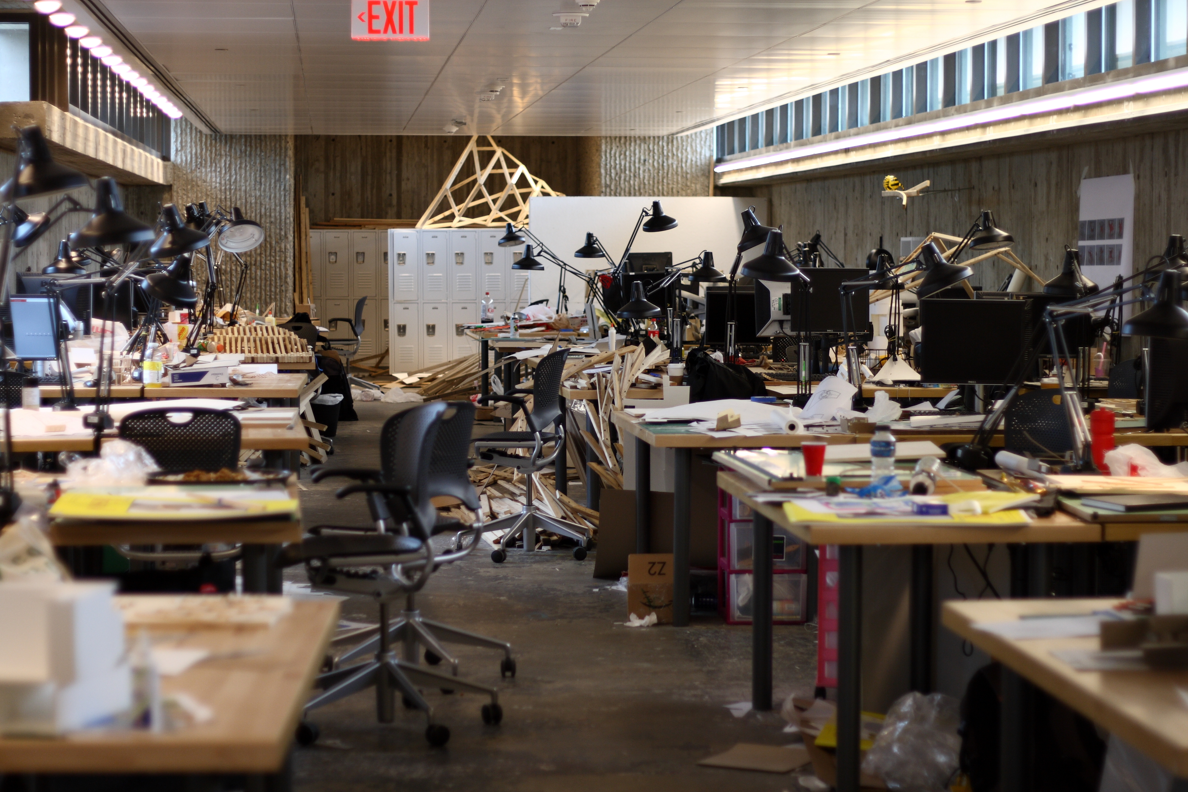 Crowded desks in the Yale Art and Architecture Building, littered with food, models, draft designs, and instruments of architectural design.